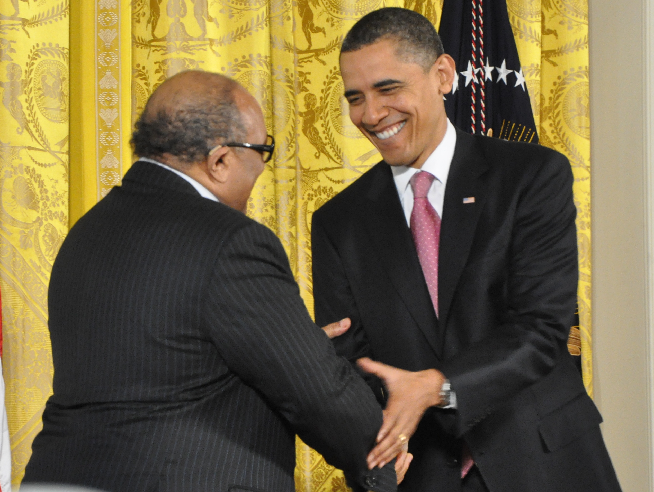 Amanda Bossard/Medill News Service